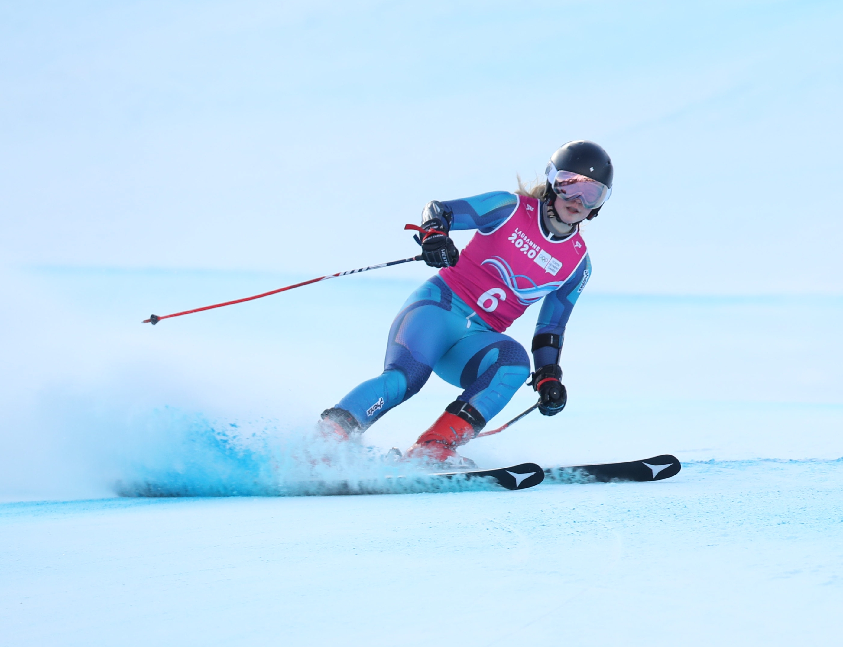 Women's Super G at the 2020 Winter Youth Olympics in Lausanne